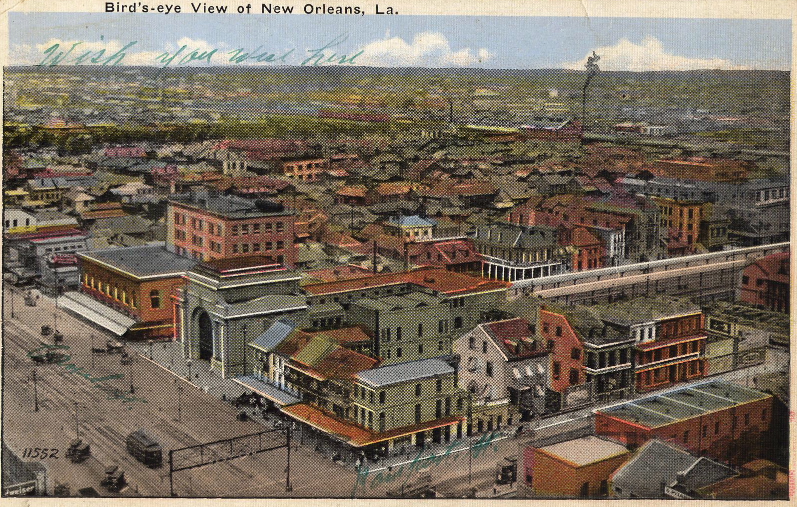 "Bird's-eye View of New Orleans, Louisiana". Early 20th century postcard view. Text on back of card: "Bird's-Eye View Of New Orleans LA. This view is taken from the top of Hotel Grunewald showing that section of the City lying beyond the New Orleans Terminal Passinger Station". View shows a section of Canal Street at bottom left. Rampart street is to bottom of photo (someone has labeled it in green ink pen). The building with the large arch fronting Canal Street is the old Basin Street railway terminal. Krauss store visible on Canal just beyond it. Of particular interest is the row of buildings seen fronting Basin Street, including Tom Anderson's, Josie Arlington's, and Lulu White's, and "the District" behind it. This is one of the few published cards showing what history recalls as "Storyville"; from the card's language about "that section of the City" this was clearly an intended focus. The line of the old Carondelet Canal is slightly visible diagonally towards the top of the view. Note the view of the buildings at Canal and Rampart Street which were demolished for the construction of the new Saenger Theater in the 1920s.